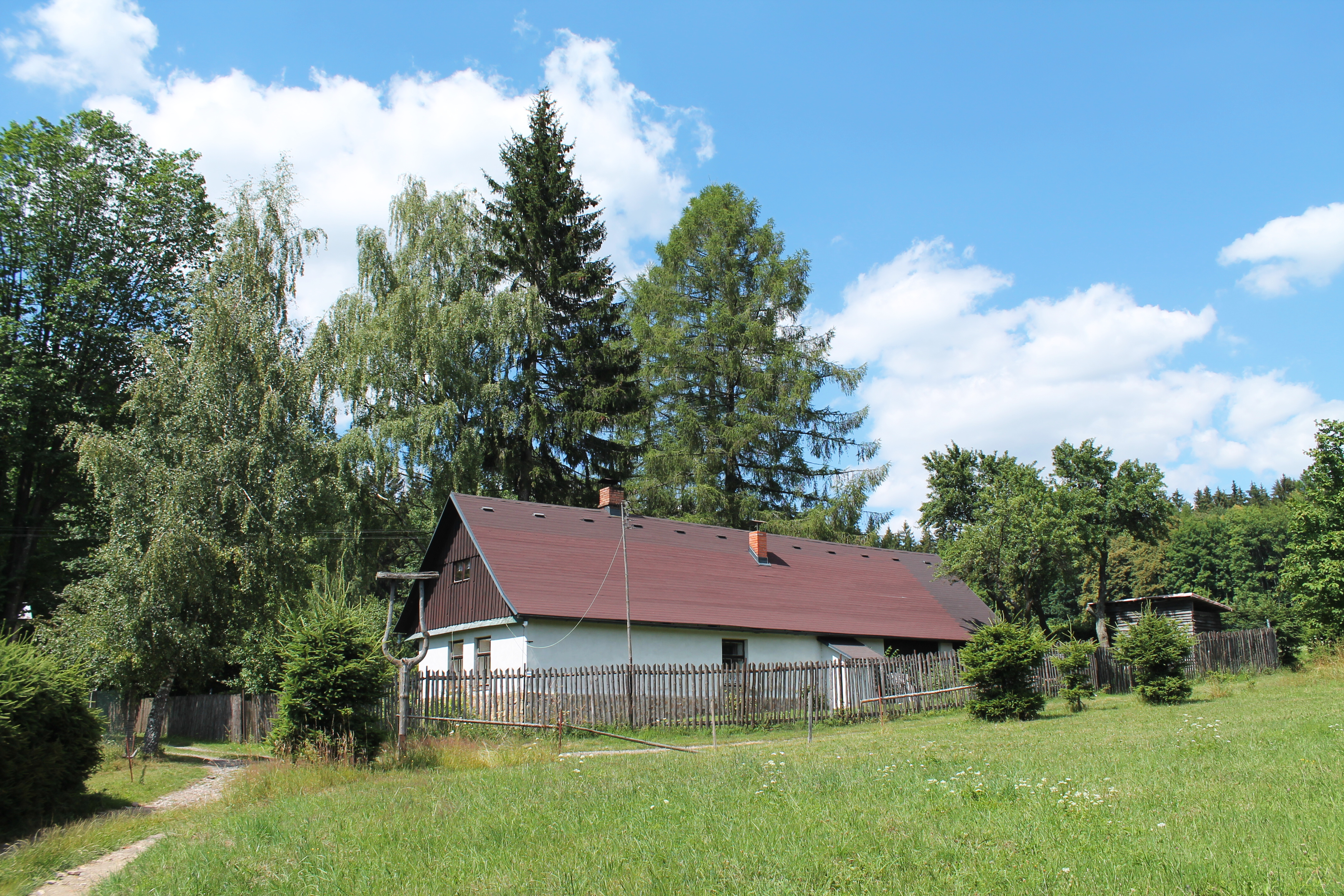 Přemilov, Seč, Chrudim District, Czech Republic